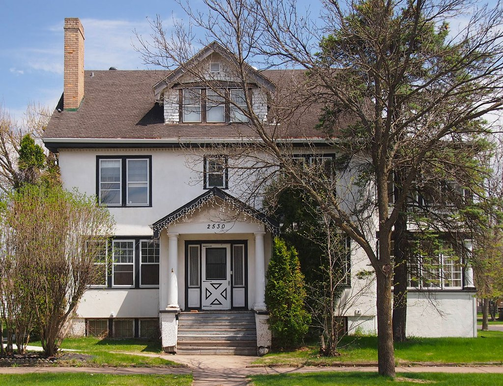 Emmett Butler House, 2530 3rd Avenue W., Hibbing, Minnesota, USA. Viewed from the west.